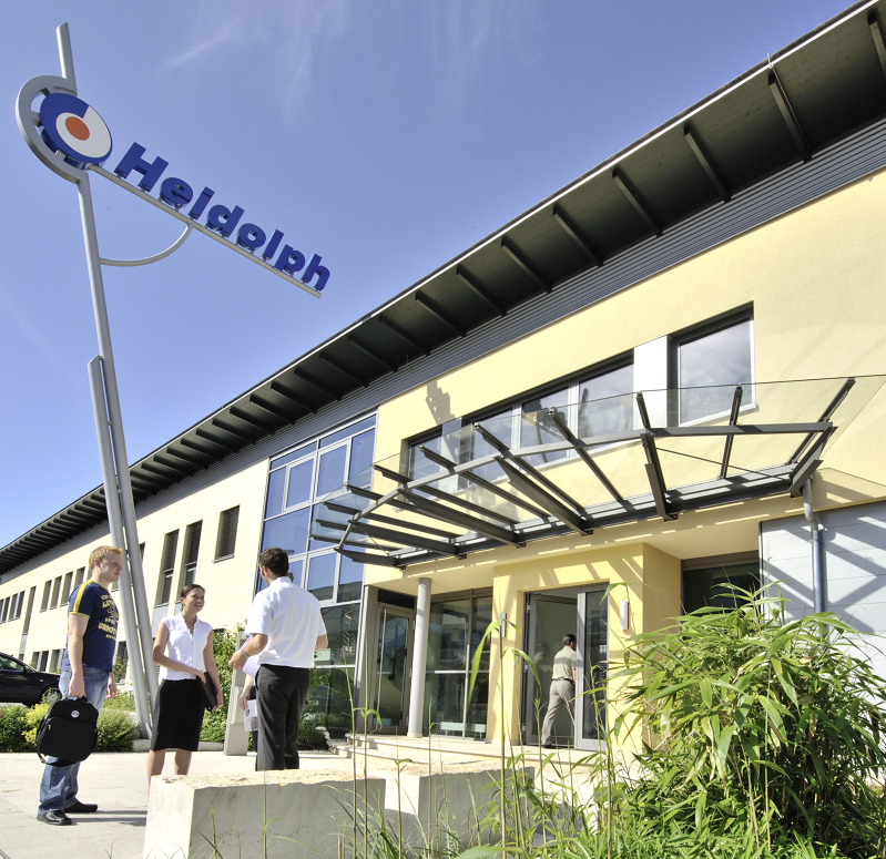 Heidolph Germany headquarters